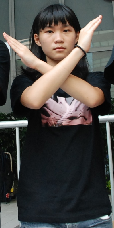 Hunger strike over national education (Wong Lei Lei)